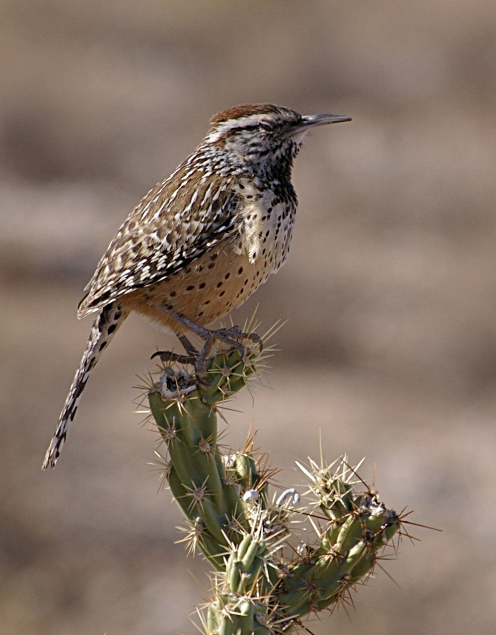 Campylorhynchus brunneicapillus (Cactus Wren), photographed at the White Tank Mountains outside of Phoenix, Arizona